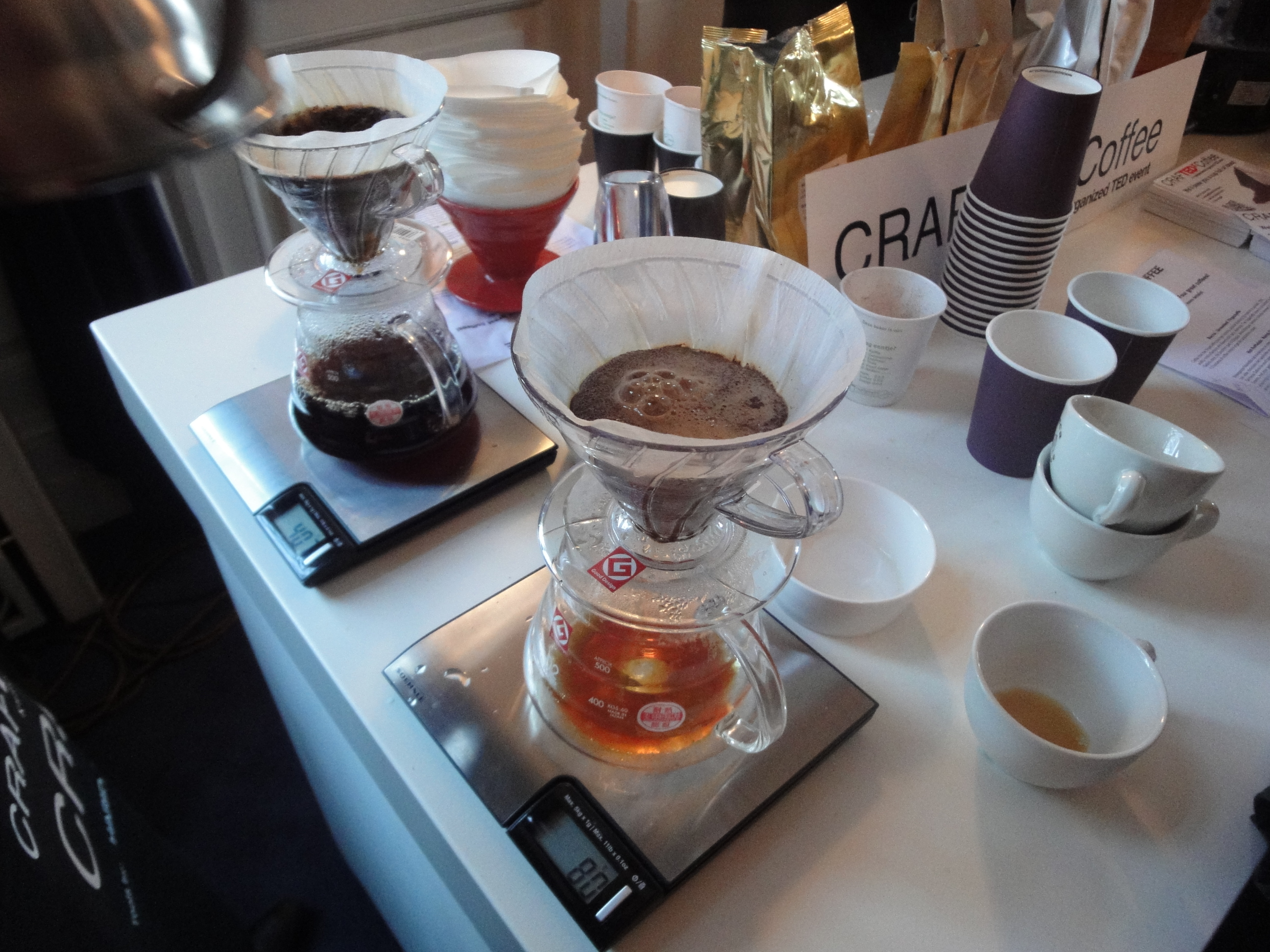 coffee